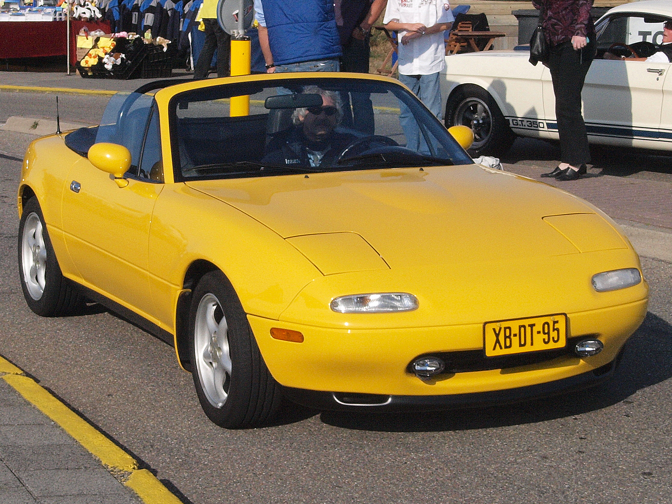 Photographed at the Nationaal Oldtimer Festival Zandvoort 2009, The Netherlands. OLYMPUS DIGITAL CAMERA